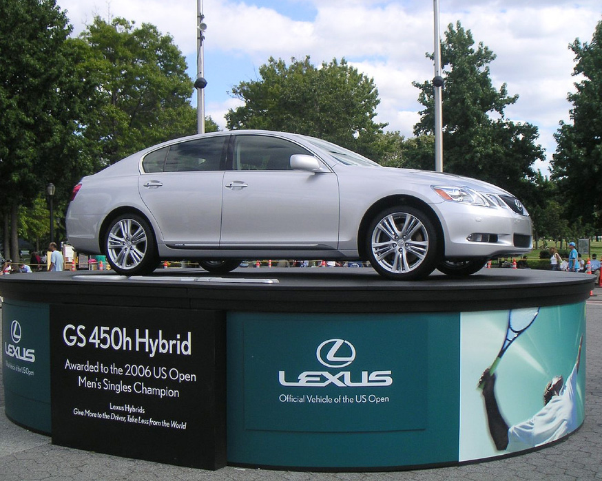 GS 450h at US Open